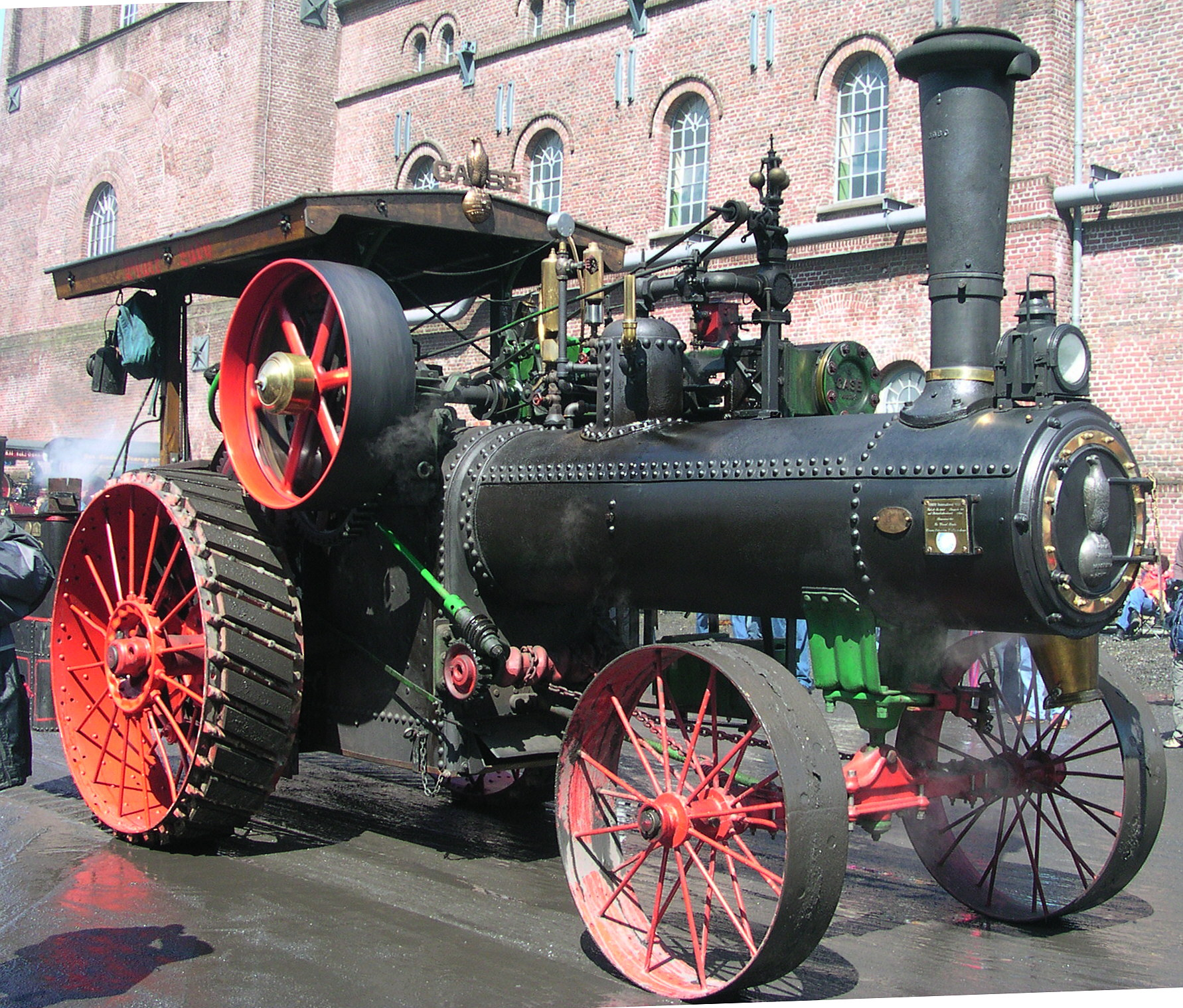 5th steam festival in Bochum, Germany 2007. CASE traction machine “Black lady”